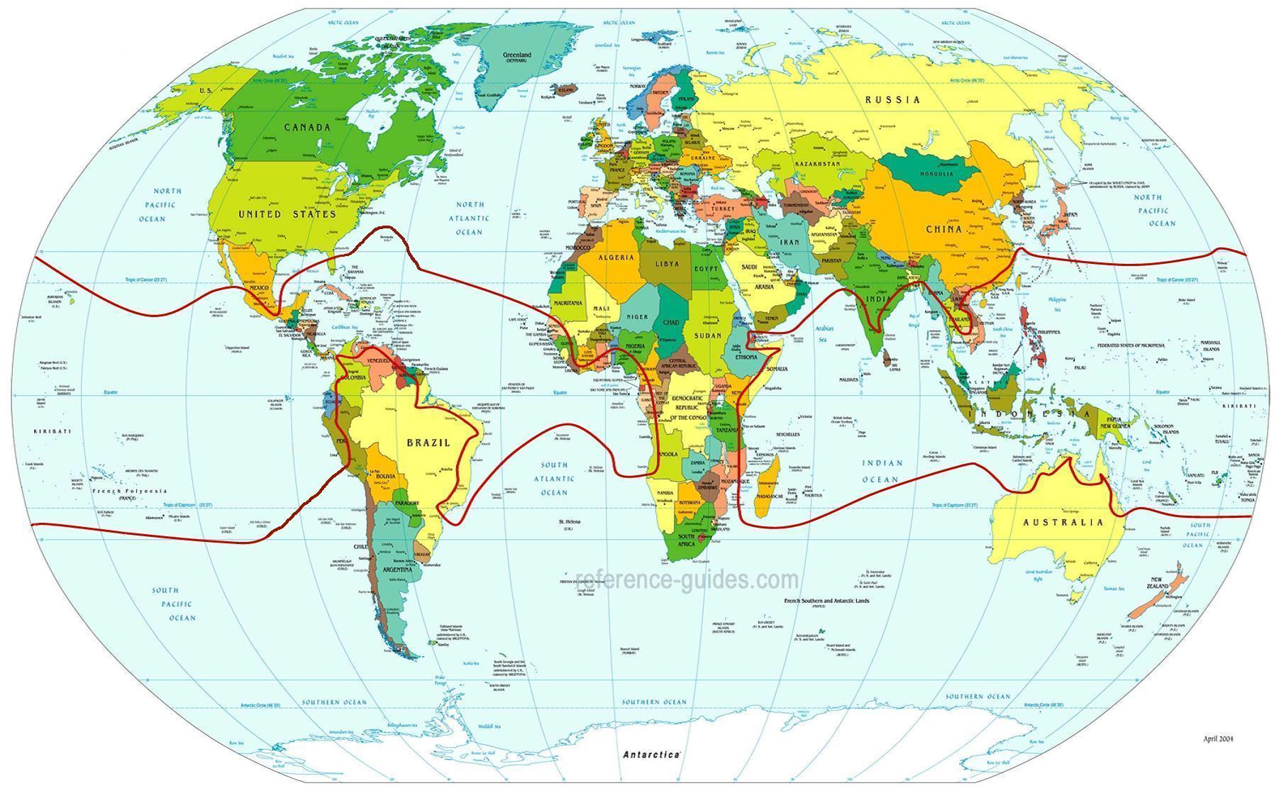 Flora distribution map of Cocos nucifera — Coconut palm tree —locations of habitats where the coconut is a native tree.